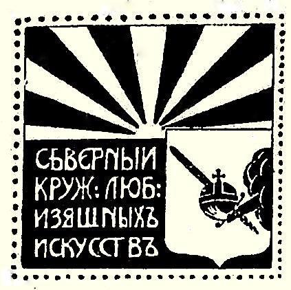 Northern Society of Fine Art Lovers (1906-1920) logo; taken from 1909 Exibition booklet.